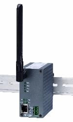 Industrial wireless access point